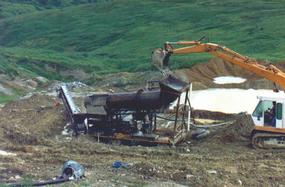 This is a photo of my trommel in operation at the Potato Patch, Blue Ribbon Mine, Alaska. The trommel is built using a piece of the Alaska Pipeline.